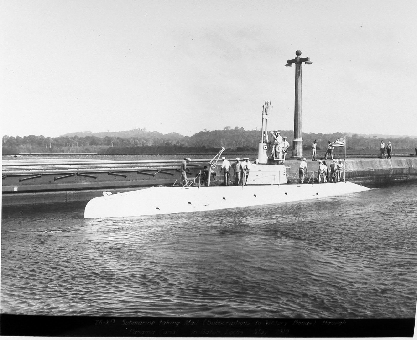 Submarine taking Mail (subscriptions to Victory Bonds) through Panama Canal in Catun Locks May 1919